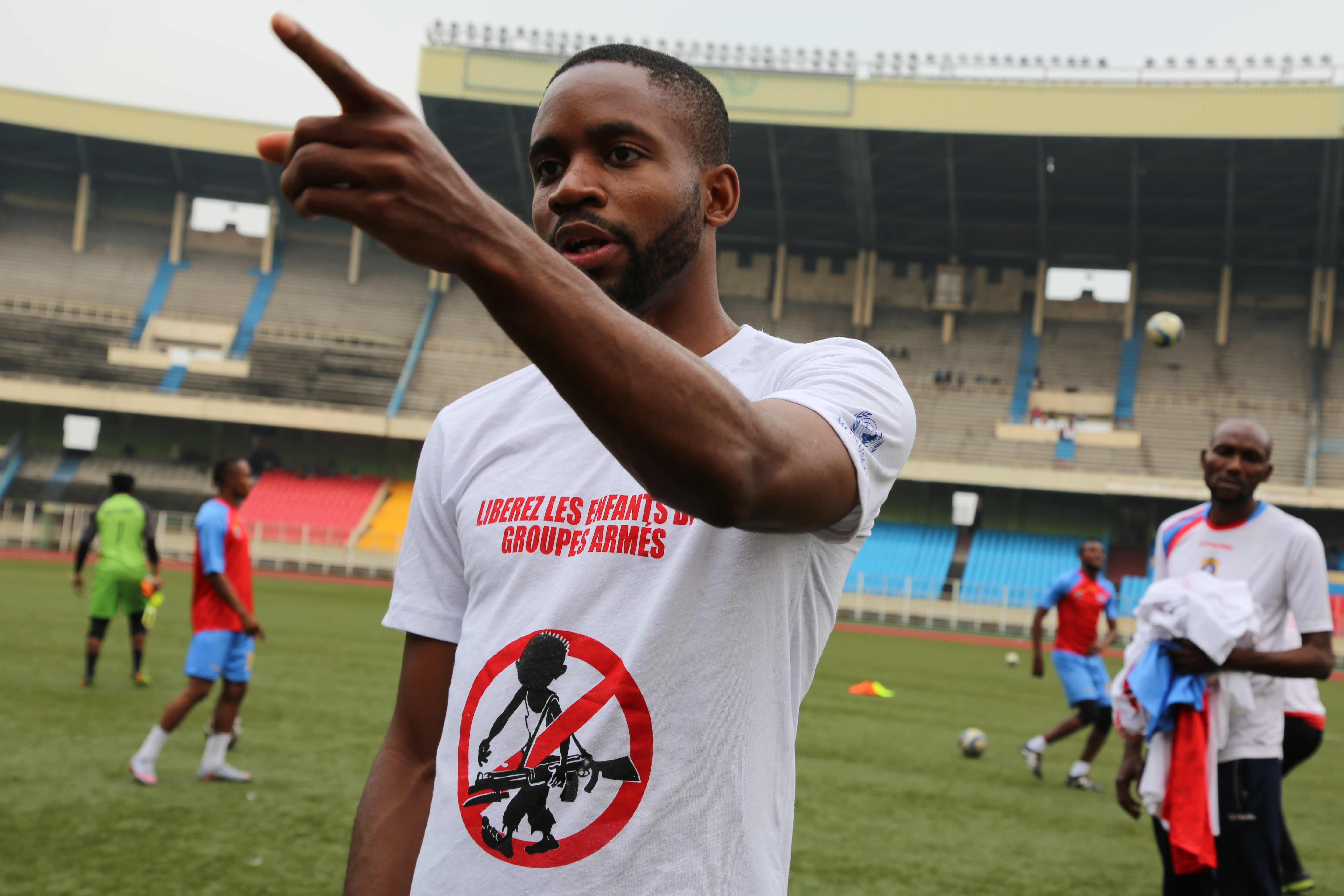 Cédric Bakambu participating in a MONUSCO Child Protection Unit campaign against recruitment of Child soldiers.